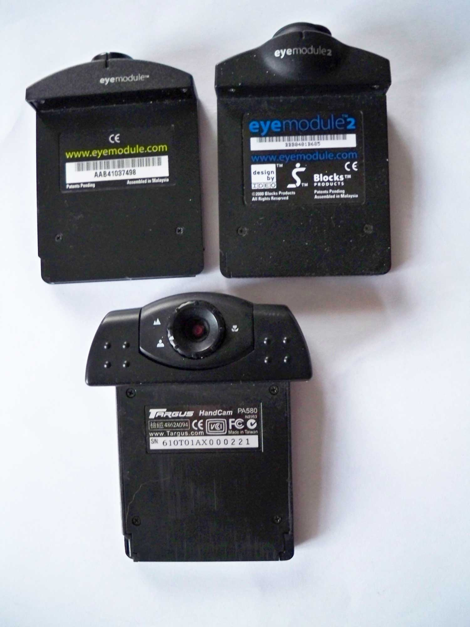 Springboard Expansion modules for PDA Handspring Visor: Cameras